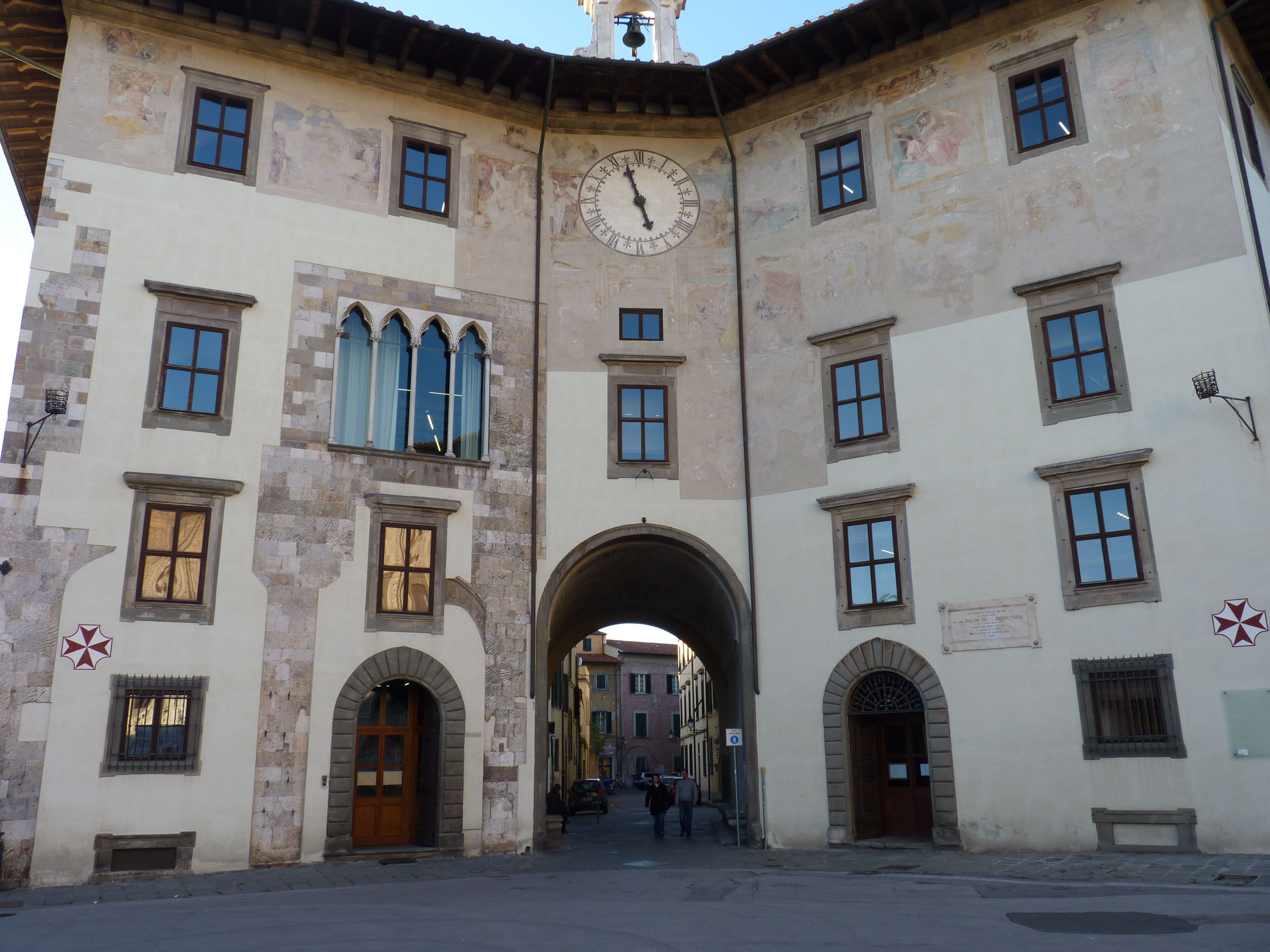 The Palazzo dell' Orologio in Pisa.